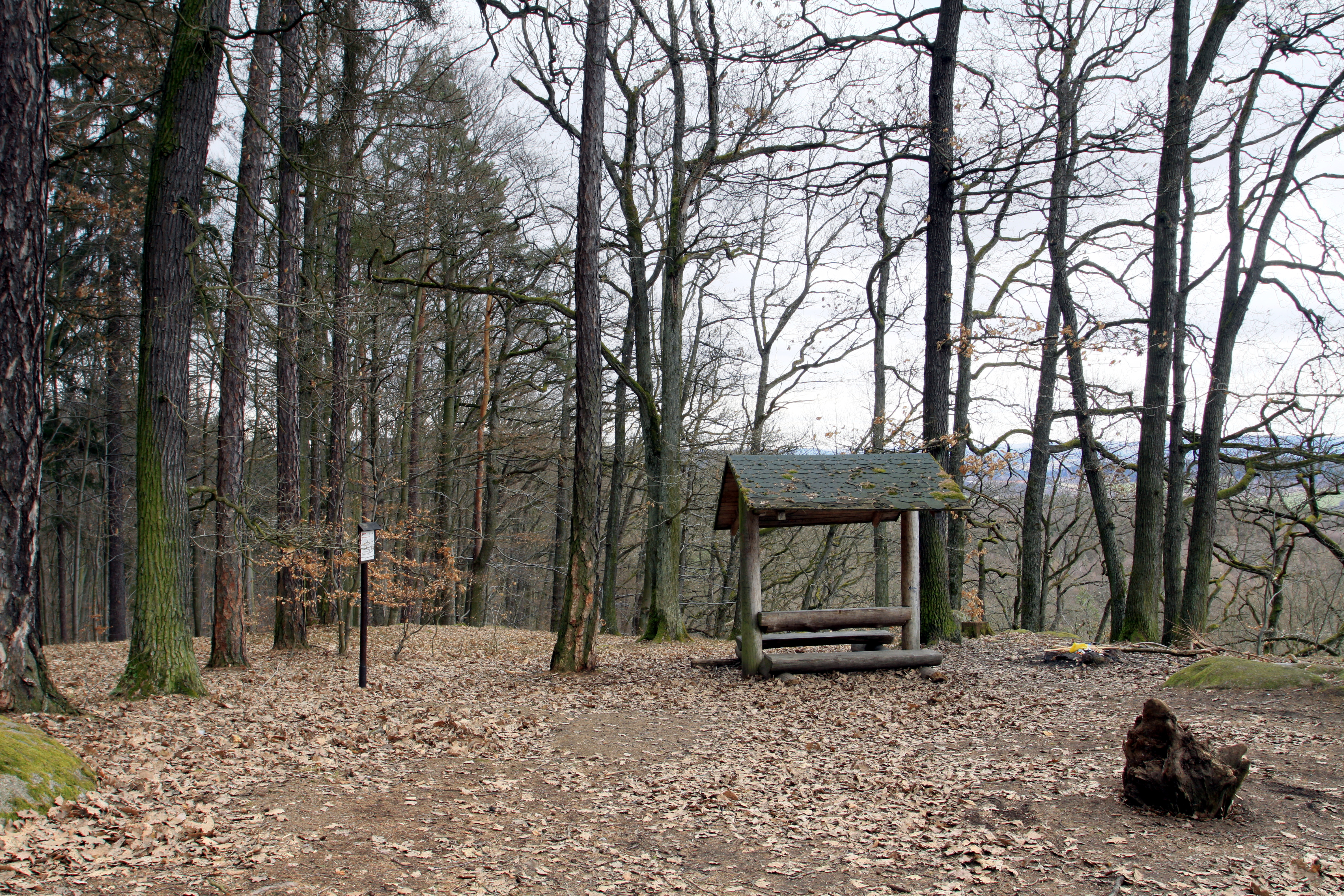 Panská skála view in the nature reserve Grabla near Krhanice village in Benešov District, Czech republic